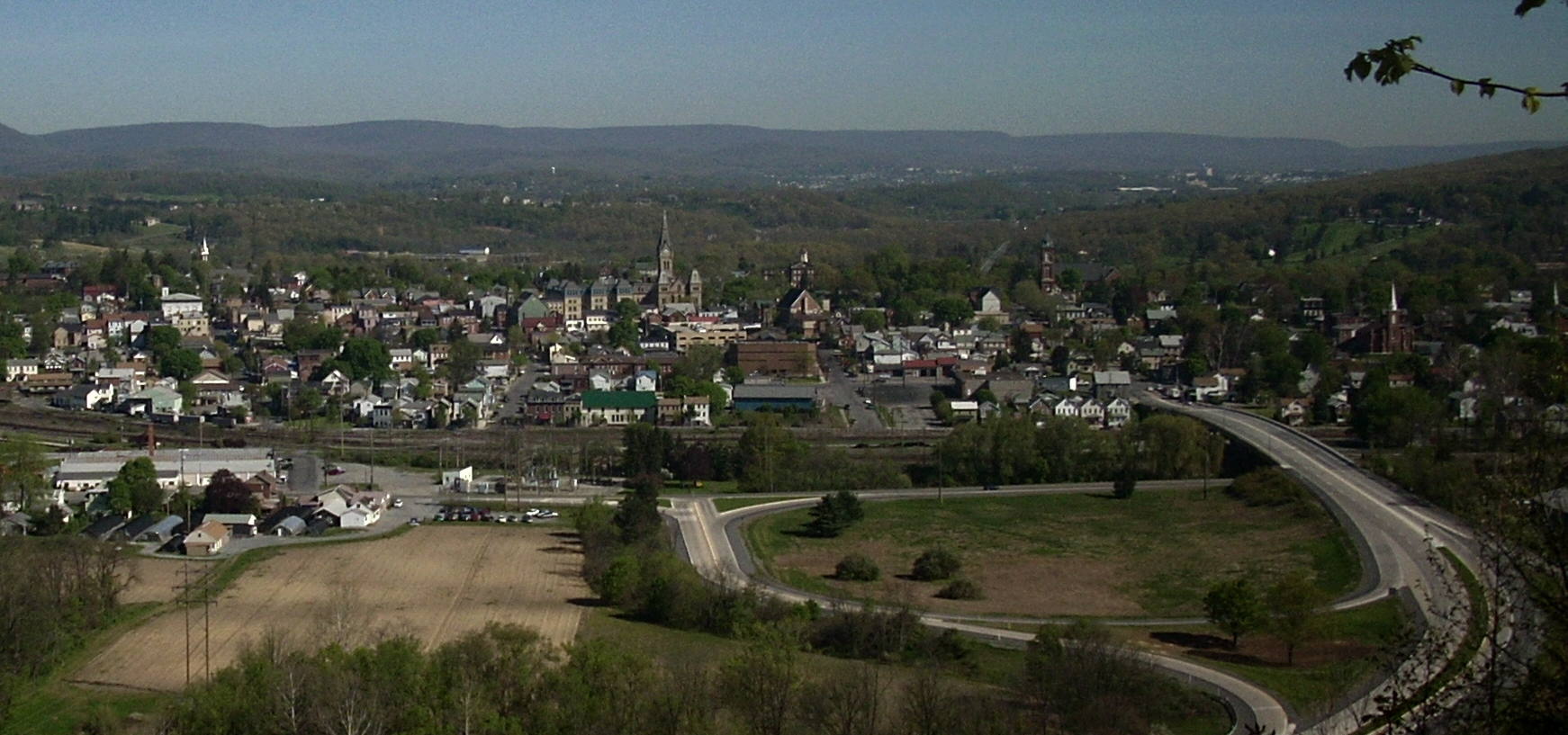 The borough of Hollidaysburg as seen from Chimney Rocks.